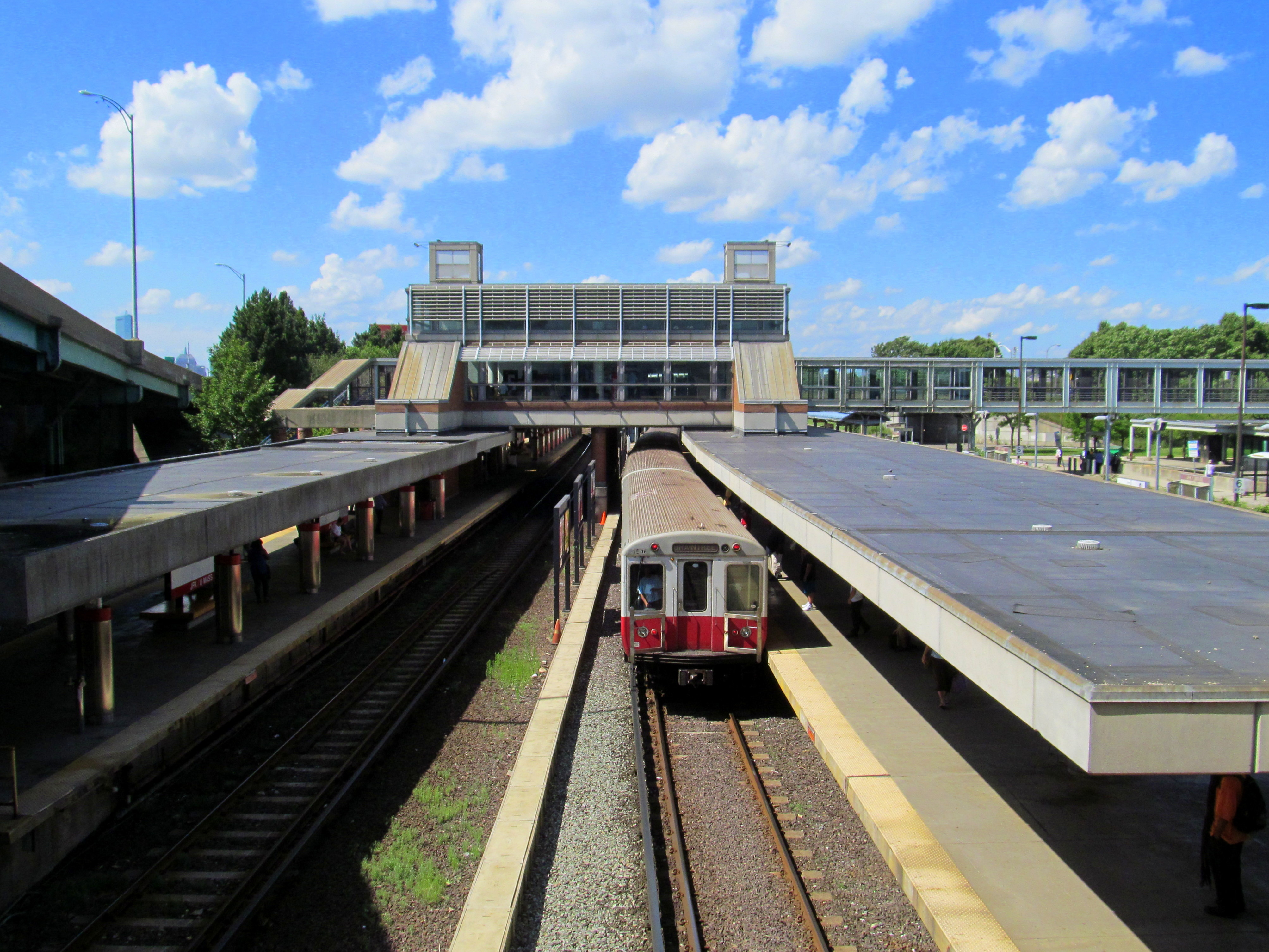 An outbound Braintree Branch train at JFK/UMass station in July 2013